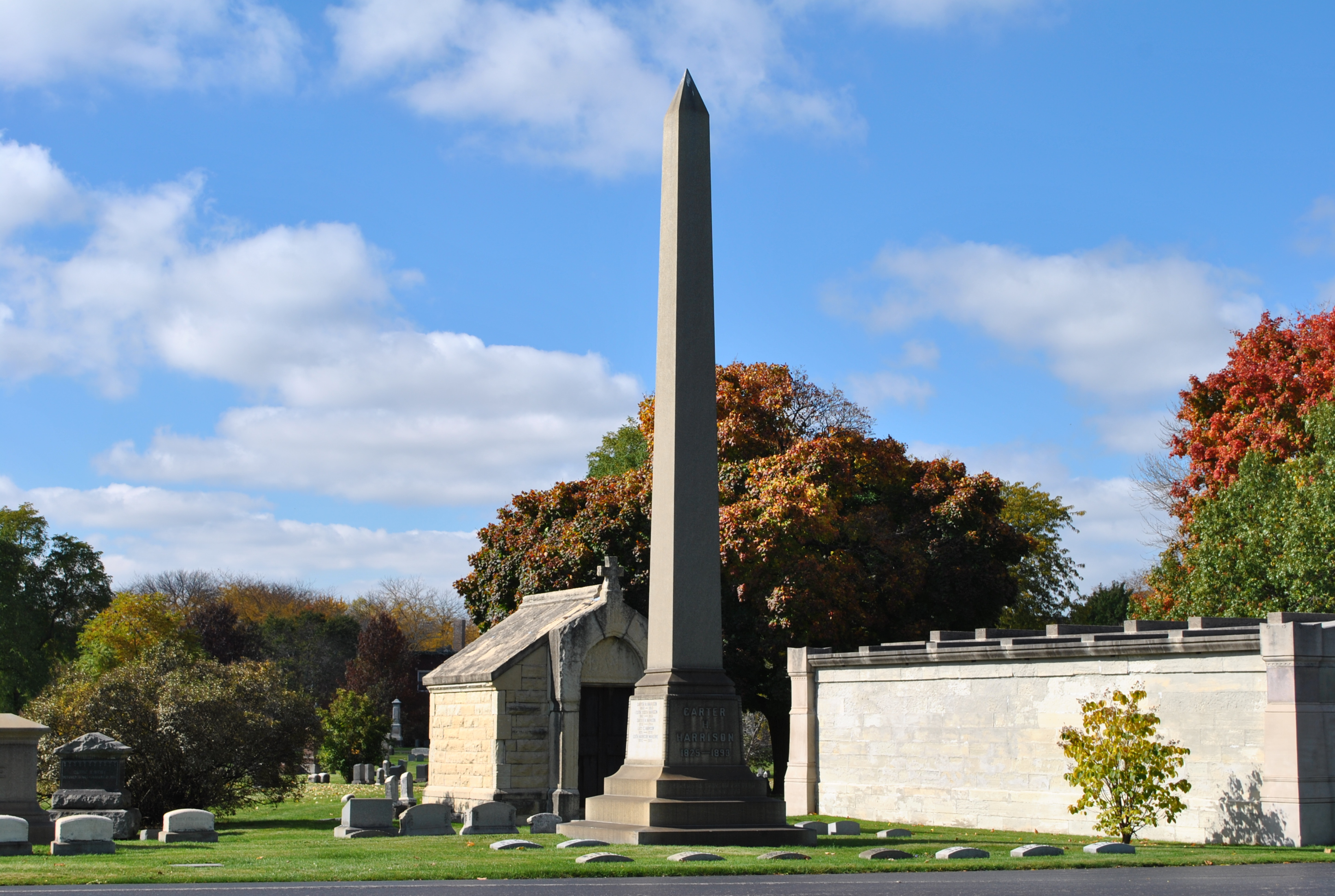 Tomb of Carter Harrison, Sr., mayor of Chicago, at Graceland Cemetery in Chicago.